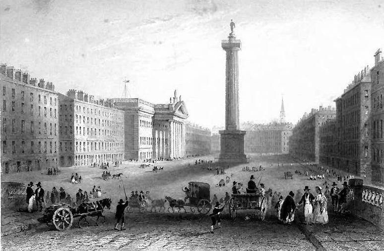 Engraving of Sackville St.